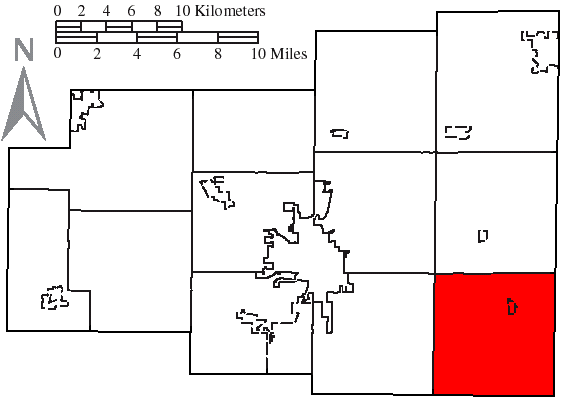 Made by the US Census and modified by myself to highlight the township